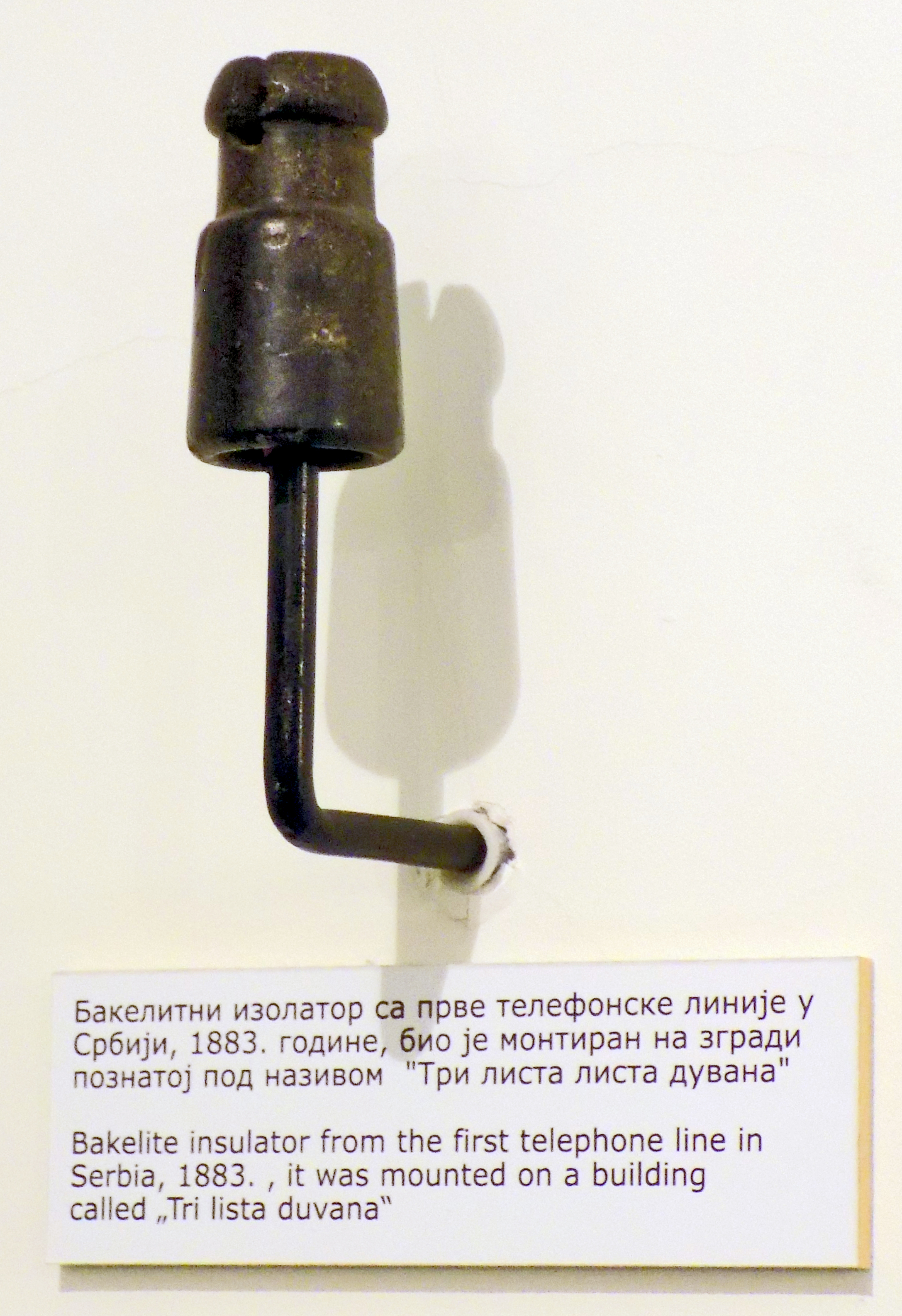 Bakelite insulator from the first telephone line in Serbia, 1883 (It was mounted on a building called Tri lista duvana) - PTT Museum in Belgrade